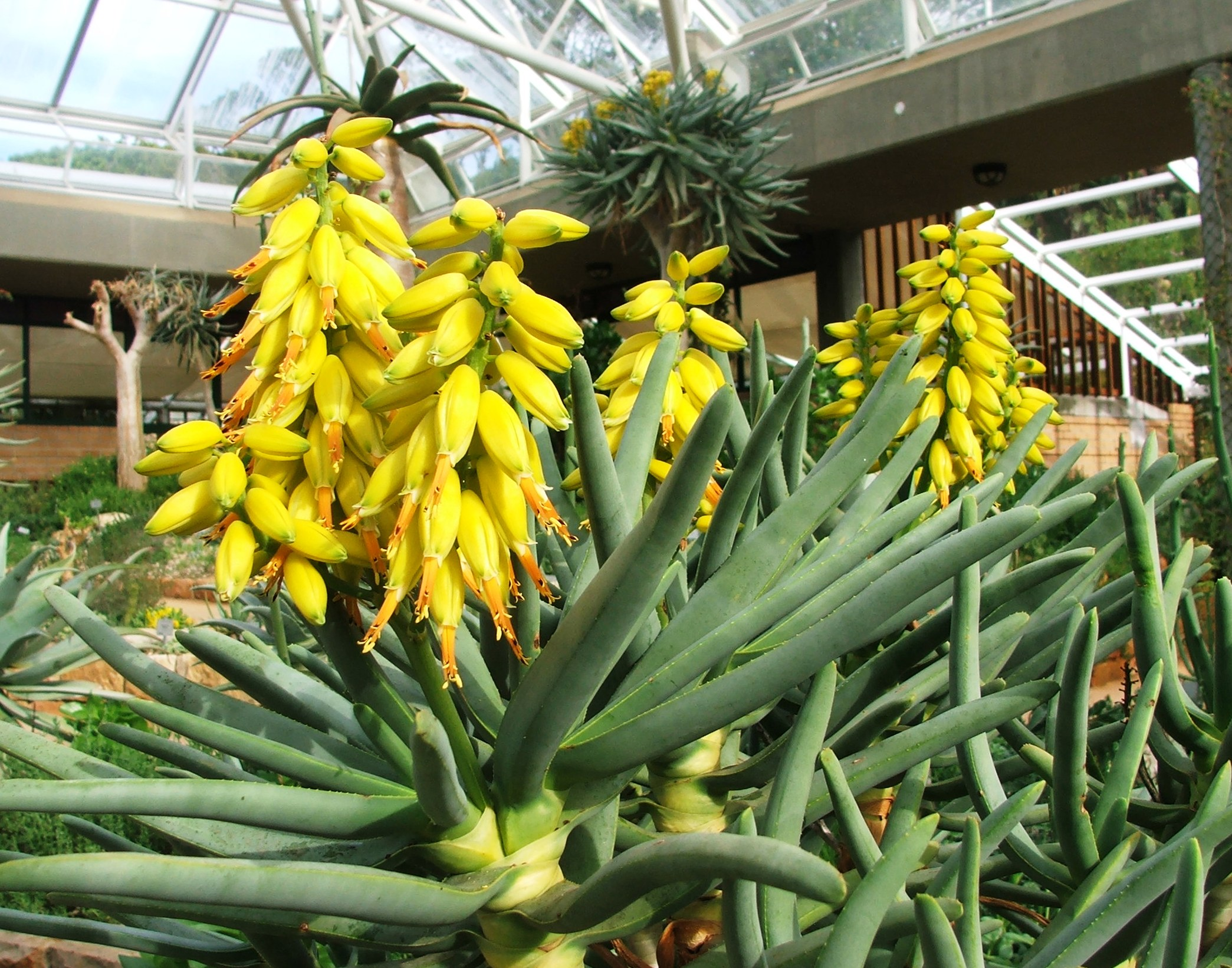 Aloe ramosissima. Rare tree aloe in cultivation in Kirstenbosch gardens. South Africa.